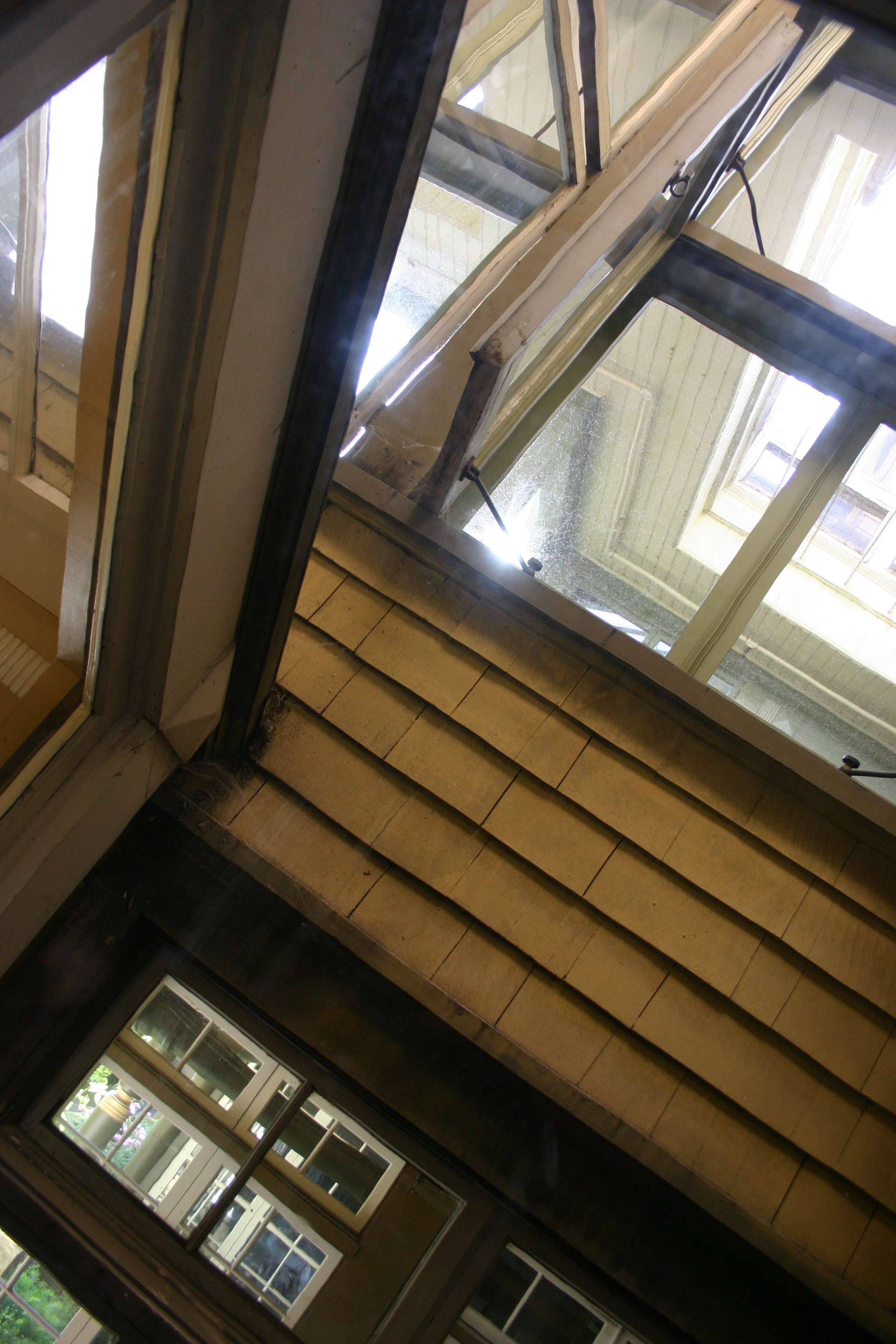 The Winchester widow feared the souls of those killed with the rifle that made her fortune. A medium told her that if she never finished her house, and kept it large and confusing, she could keep them at bay. Or so says house lore, perpetuated by students who learn it by rote and regurgitate it cheesily while walking groups through the bizarre structure.